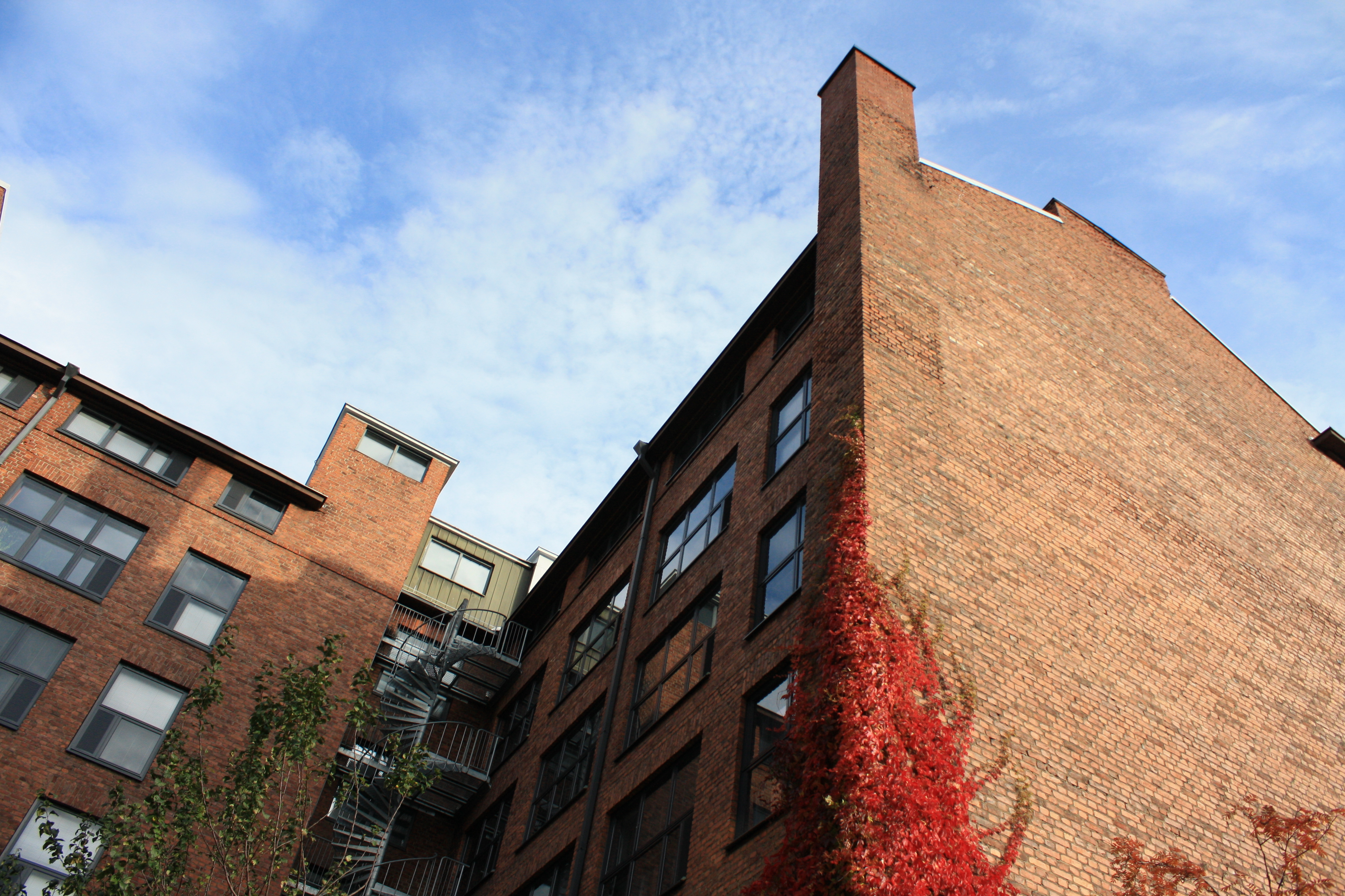 TOAS Markuksentori in Tammela, Tampere, Finland